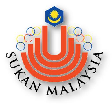 logo.